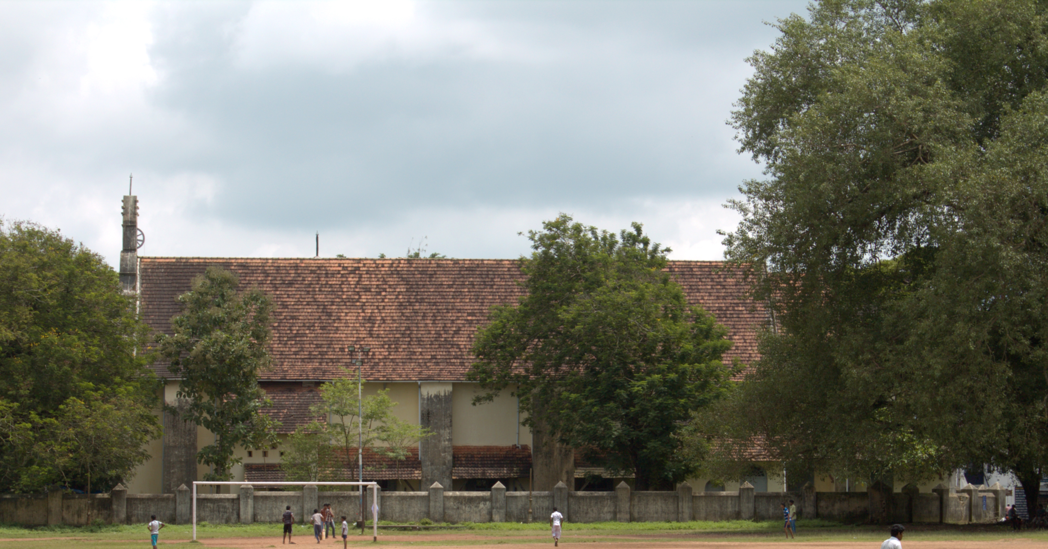 St. Francis Church